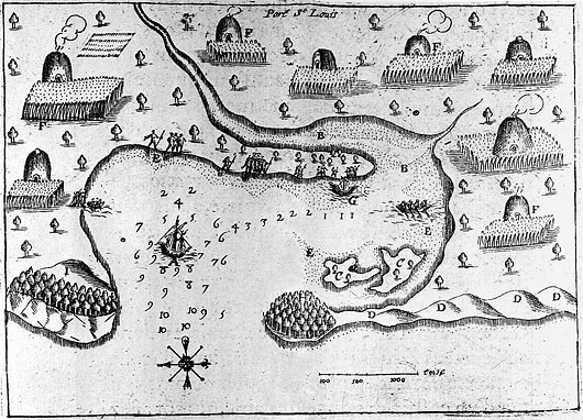 Map drawn by Samuel de Champlain of Plymouth Harbor in 1605 showing native habitations